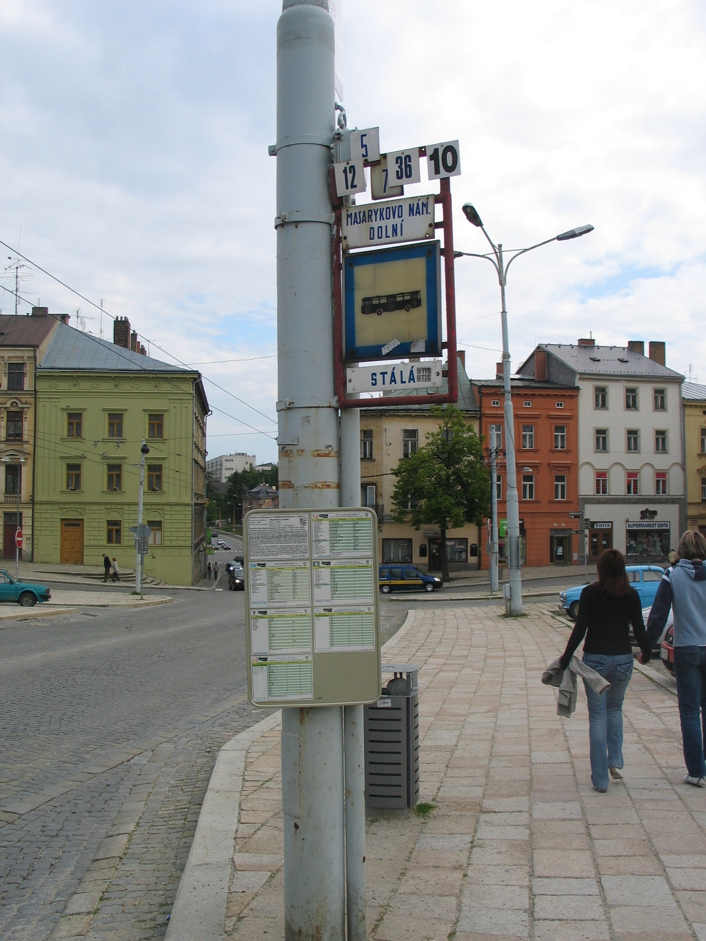 old bus stop called Masaryk's square, Jihlava